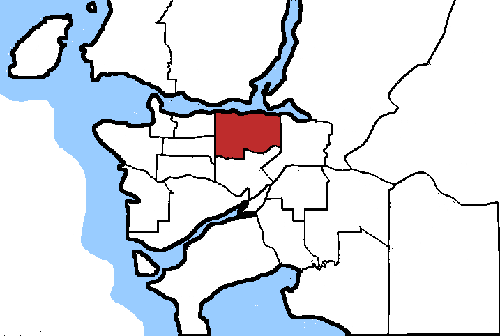 Map of the Burnaby—Douglas electoral district. Based on Earl Andrew's maps, created by SimonP.